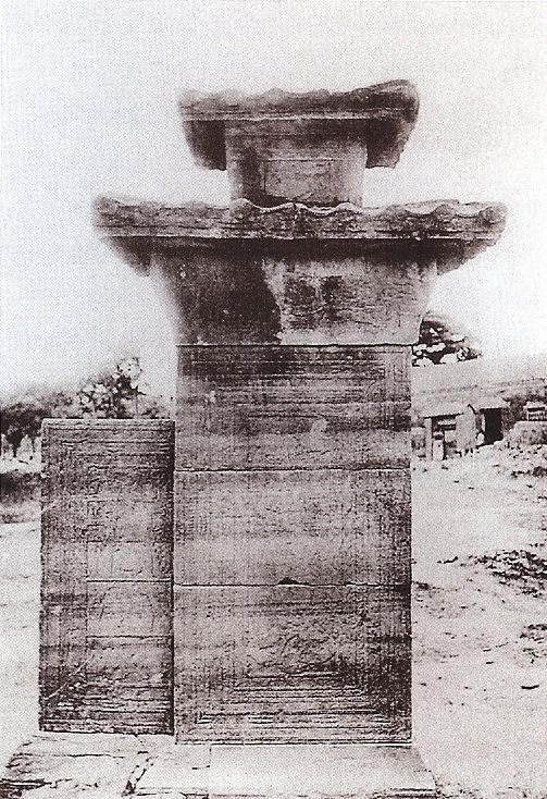 A que, or "pillar gate" monumental tower standing in front of the Wu Family Shrines built in Shandong province, China, during the 2nd century AD. This photo was taken at the turn of the 20th century by Édouard Chavannes (died 1918).